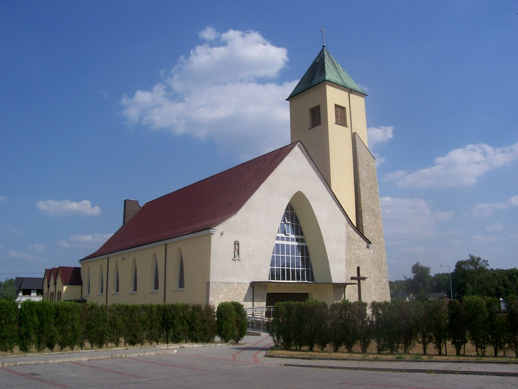 The church of Mother of God from Fátima, in Opole-Grudzice, Poland